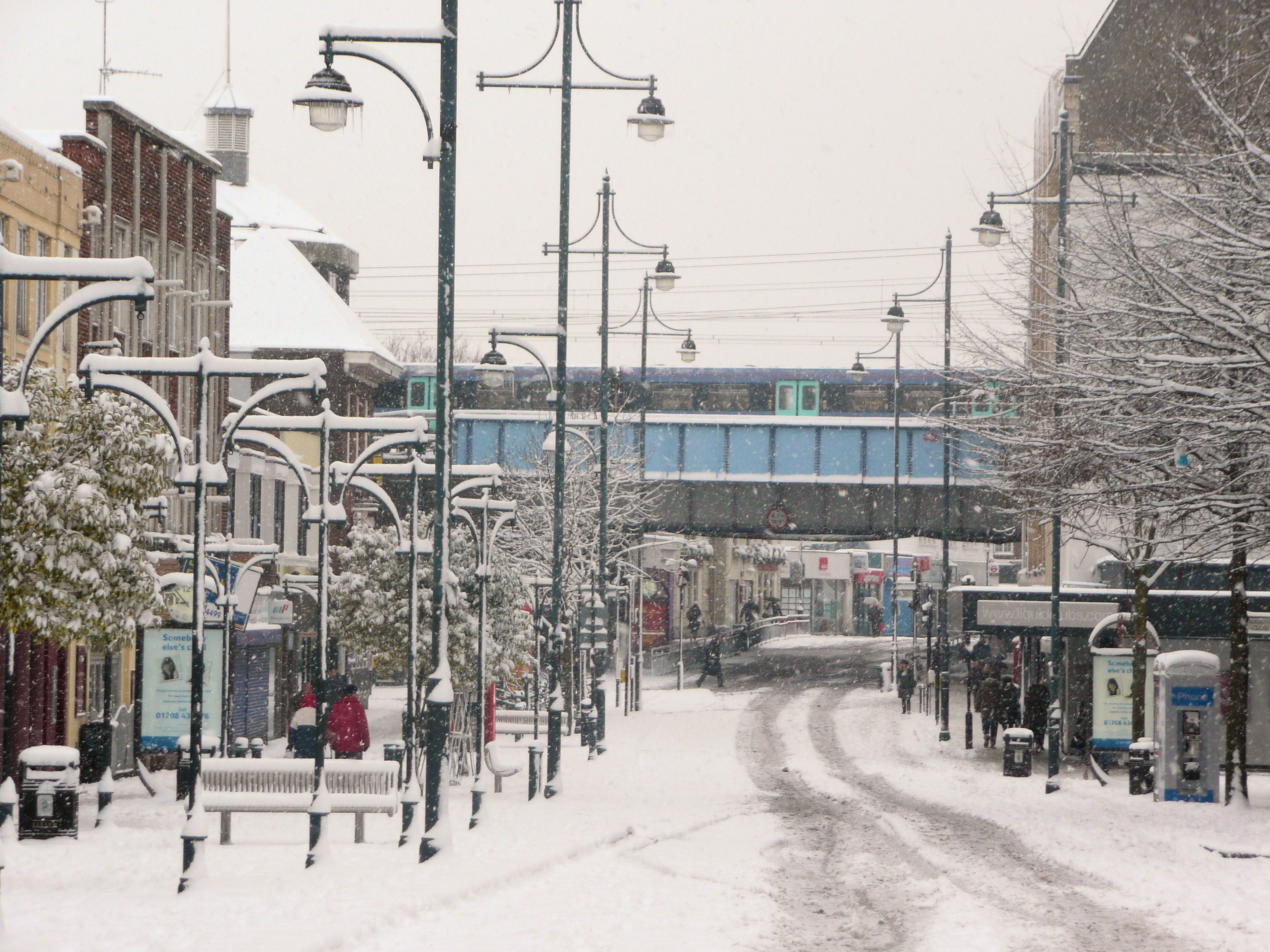 South Street in Romford, looking south towards Romford station.